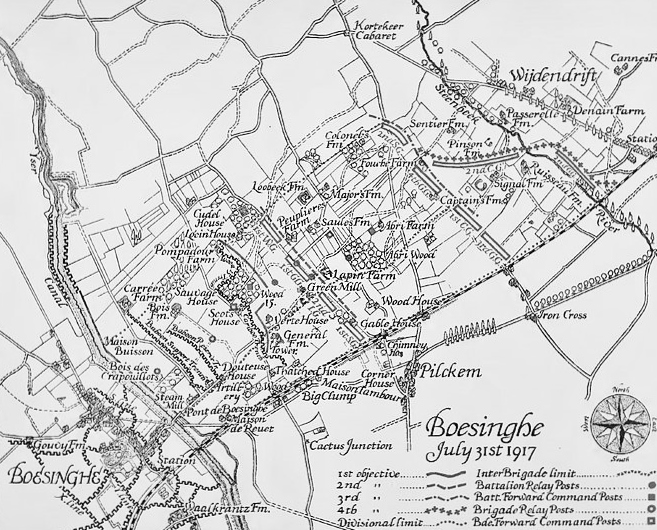 Diagram of the Guards Division advance towards Wijdendreft on 31 July 1917